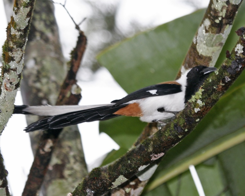 White-bellied Treepie Dendrocitta leucogastra Periyar, Kerala , India 12th. December 2005 Endemic to SW India not as widespread as indicated in map: _MG_0432